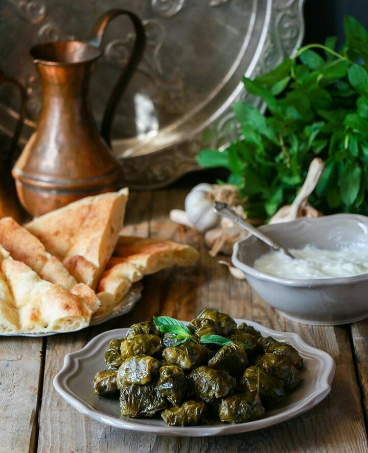 dolma is atraditional meal of Azerbaijan